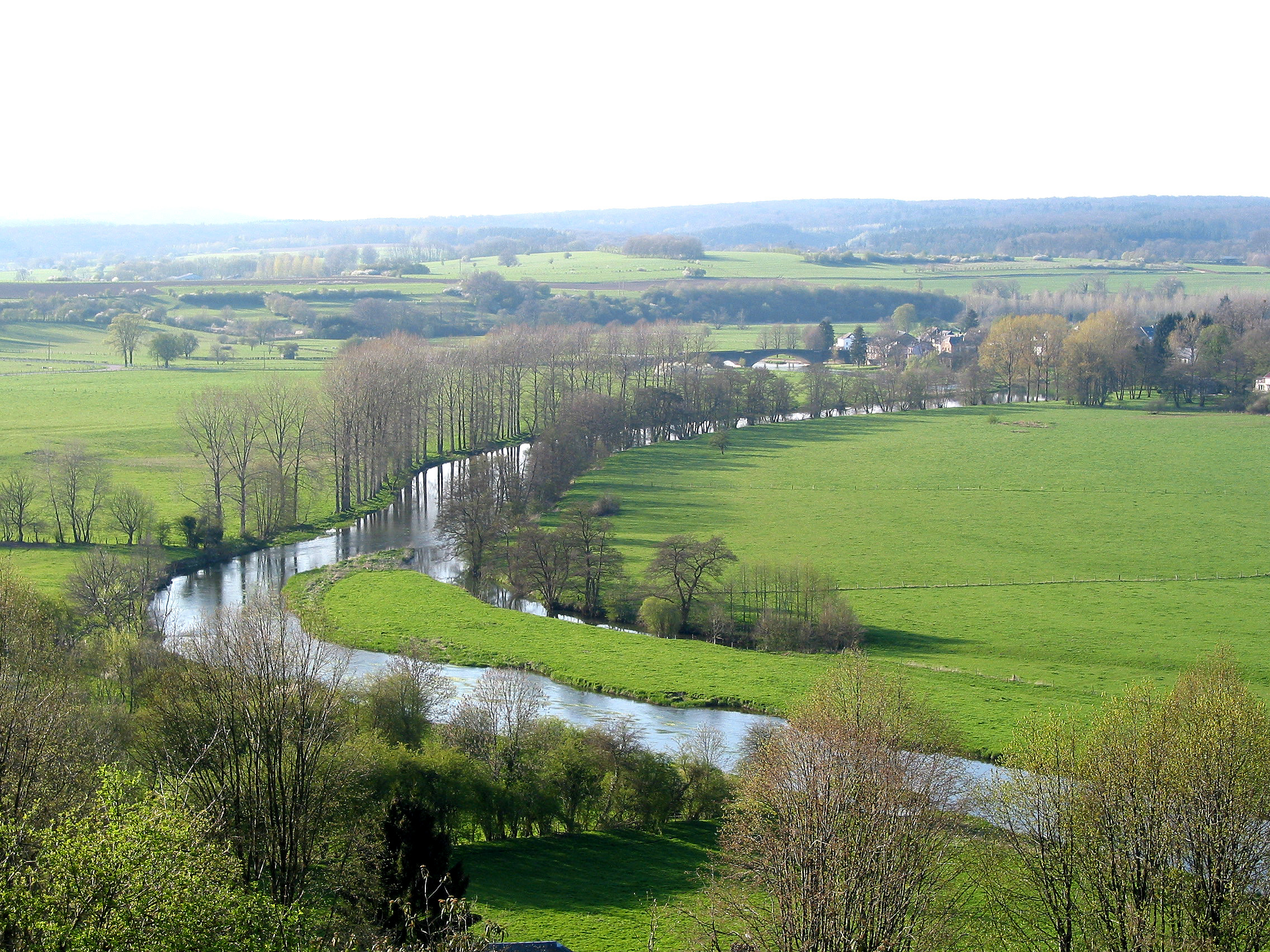 Florenville (Belgium), view on the Semois river valley from the view-point located behind the church (cuesta).